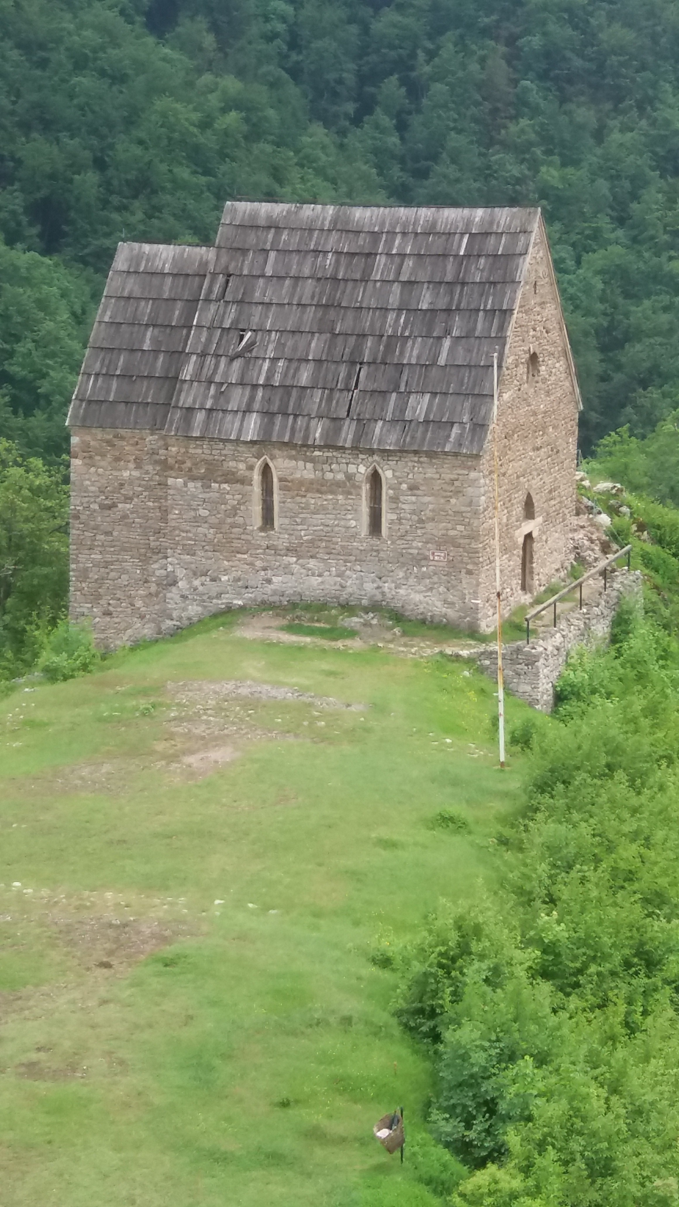 Bobovac